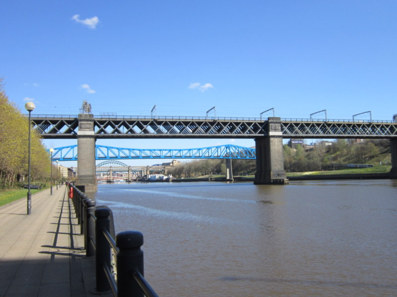 The King Edward Rail Bridge, Newcastle